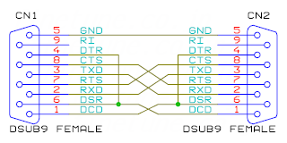 Nullmodem cable connection